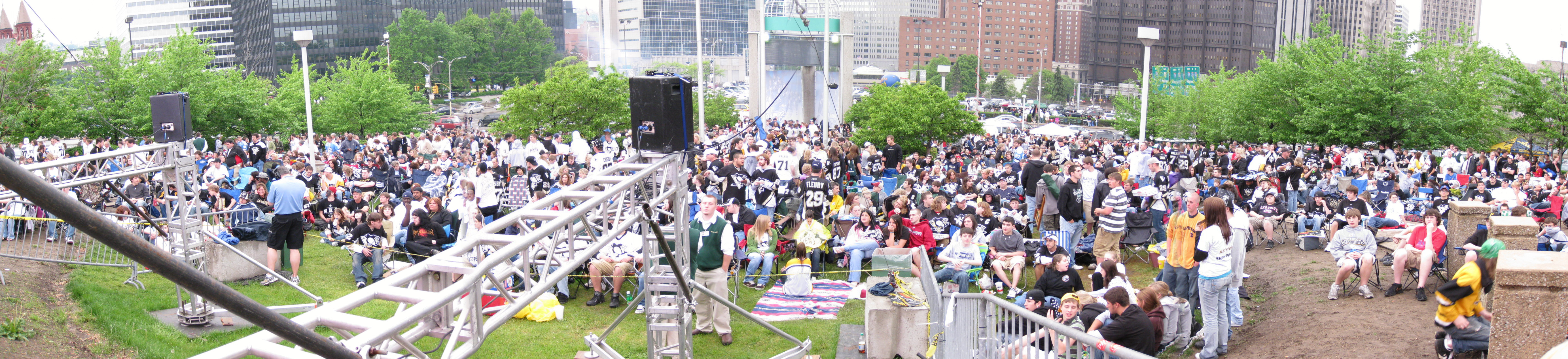 They are waiting to get ready to watch big screen outside from Mellon Arena for Penguins vs Flyers Game #1 Eastern Conference championship game